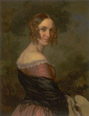 Portrait of af skuespillerinde Louise Amalie Petrine Phister, fnePetersen , 1840–1849